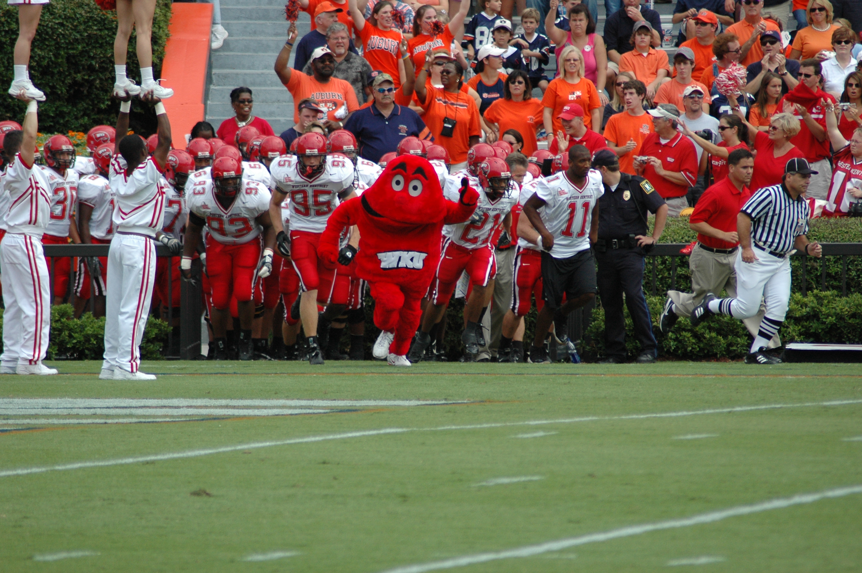 Big Red, the costumed mascot of the Western Kentucky University Hilltoppers, leads the football team onto the field against Auburn University.